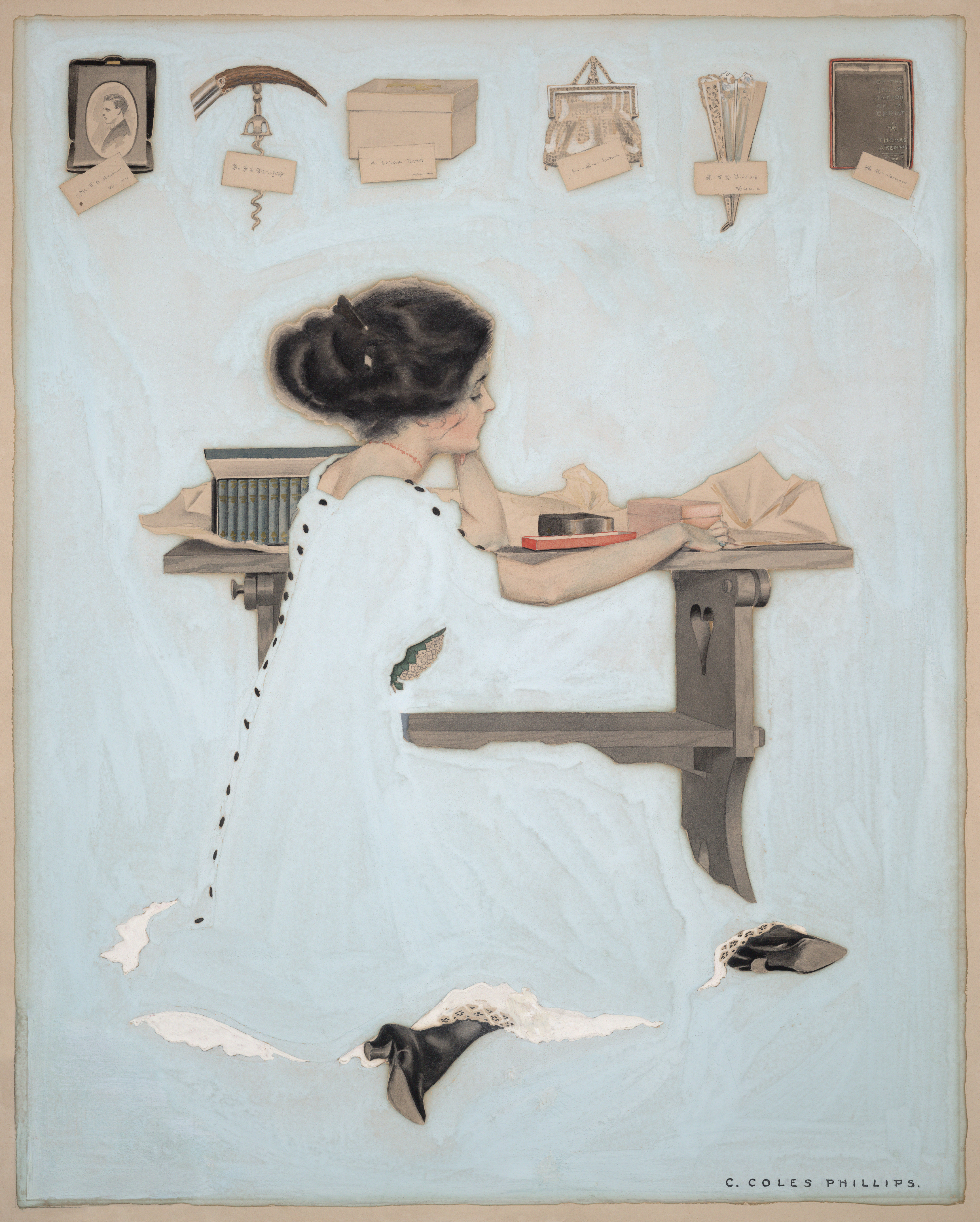 "Know all men by these presents": Cover illustration shows a woman seated on the floor next to a table whose surface is covered with gifts. Above gifts from various gentlemen callers are displayed: a photograph, a corkscrew, a box, a purse, a fan and the book "Of the imitation of Christ." The blue in the woman's dress matches the blue of the background, creating a sense of negative space, typical of Phillips' "Fade-away girl." Published as cover illustration: Life magazine, January 27, 1910. 1 drawing : gouache, watercolor and charcoal over graphite underdrawing. Digital file from original. The name of the illustration is a play on a common introduction to a legal or official document, calling on all who see the document to take notice of its contents or subject matter.